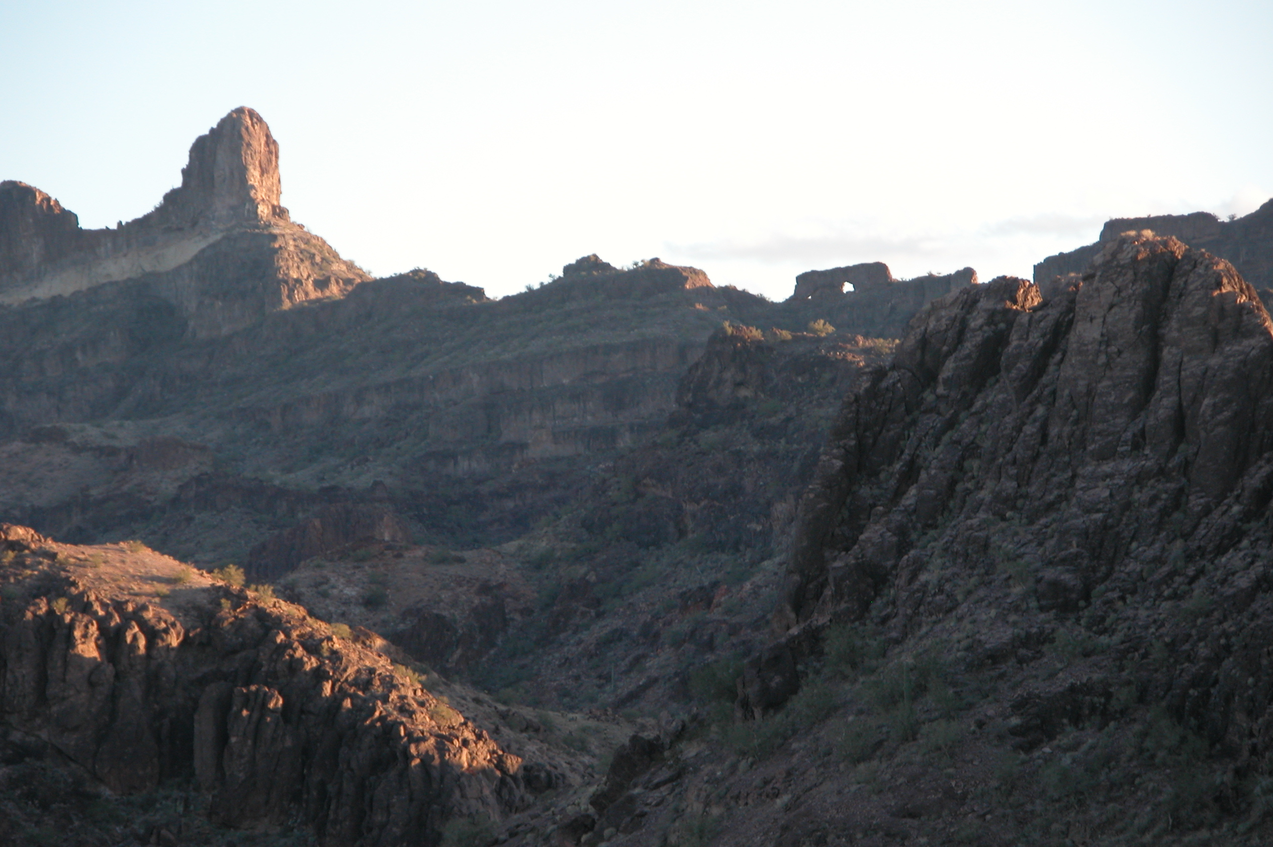 Eagle Eye arch in the New Water Mountain range, AZ